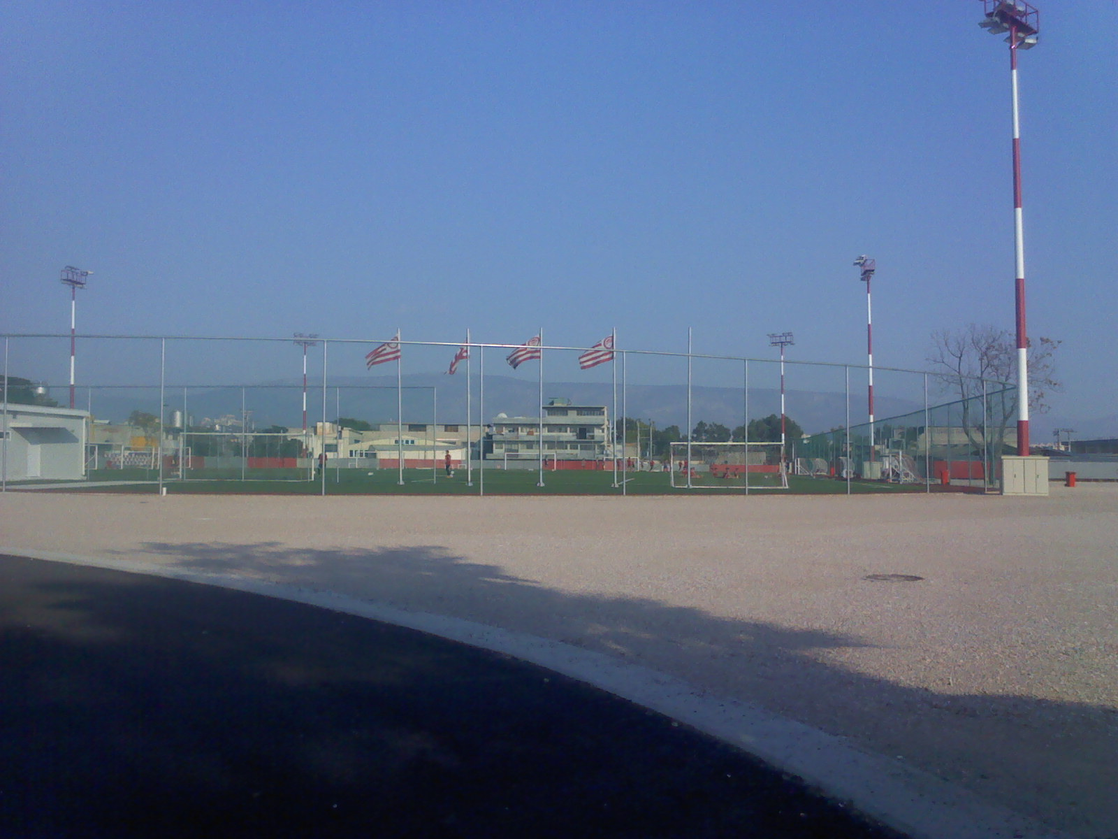 Training center Olympiakos Renti